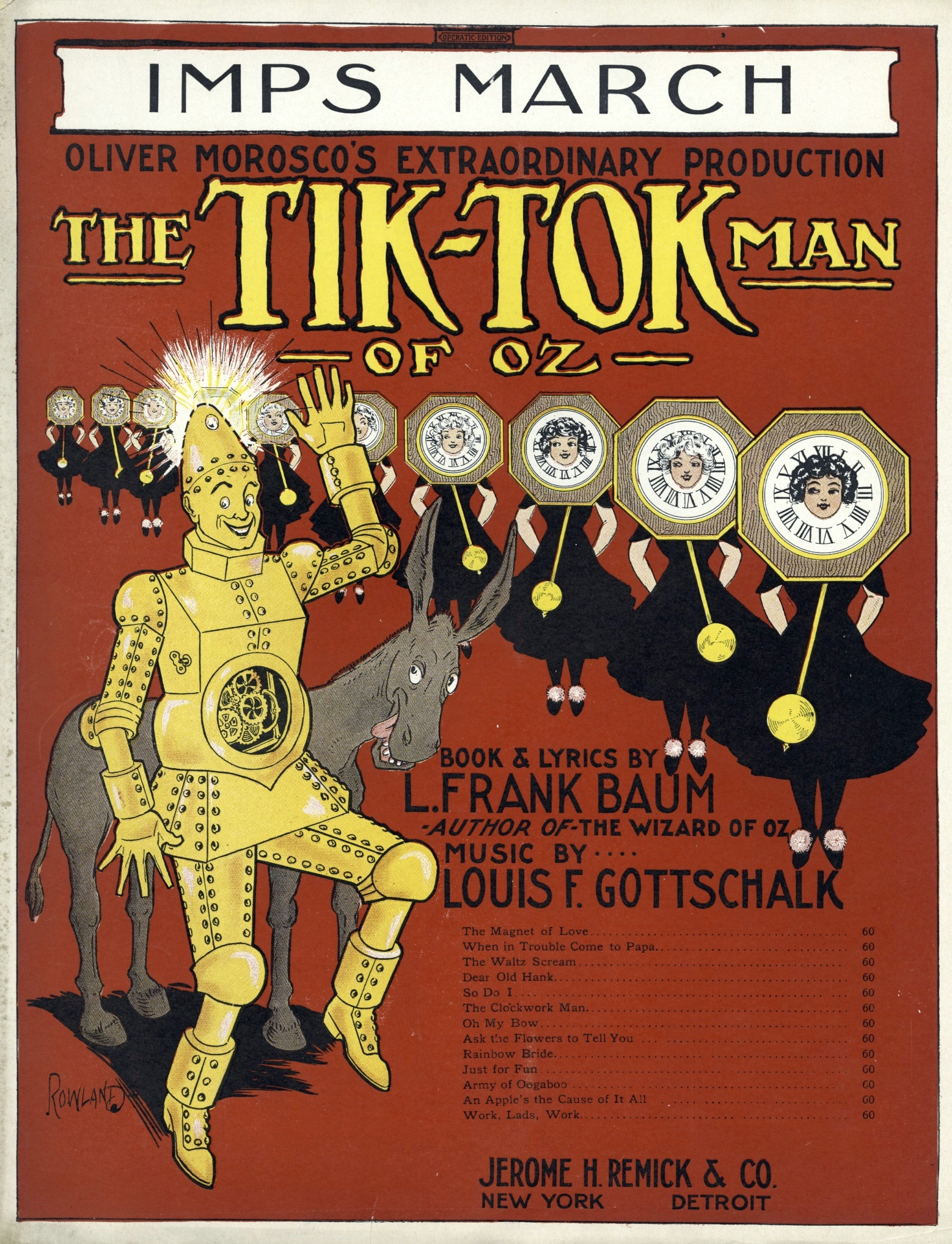 Cover of sheet music for the Imps March from the musical "The Tik Tok Man of Oz"